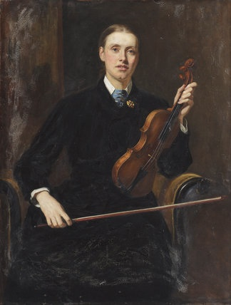 Emily Langton Langton, née Emily Caroline Langton Massingberd 1847-1897 of Gunby Hall,spouse of her second-cousin, Edmund Langton.by Theodore Blake Wirgman (1848–1925)